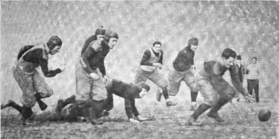 "Cole Attempts to Recover the Ball after Scott's Fumble," photograph taken at Michigan - Penn football game, 1910